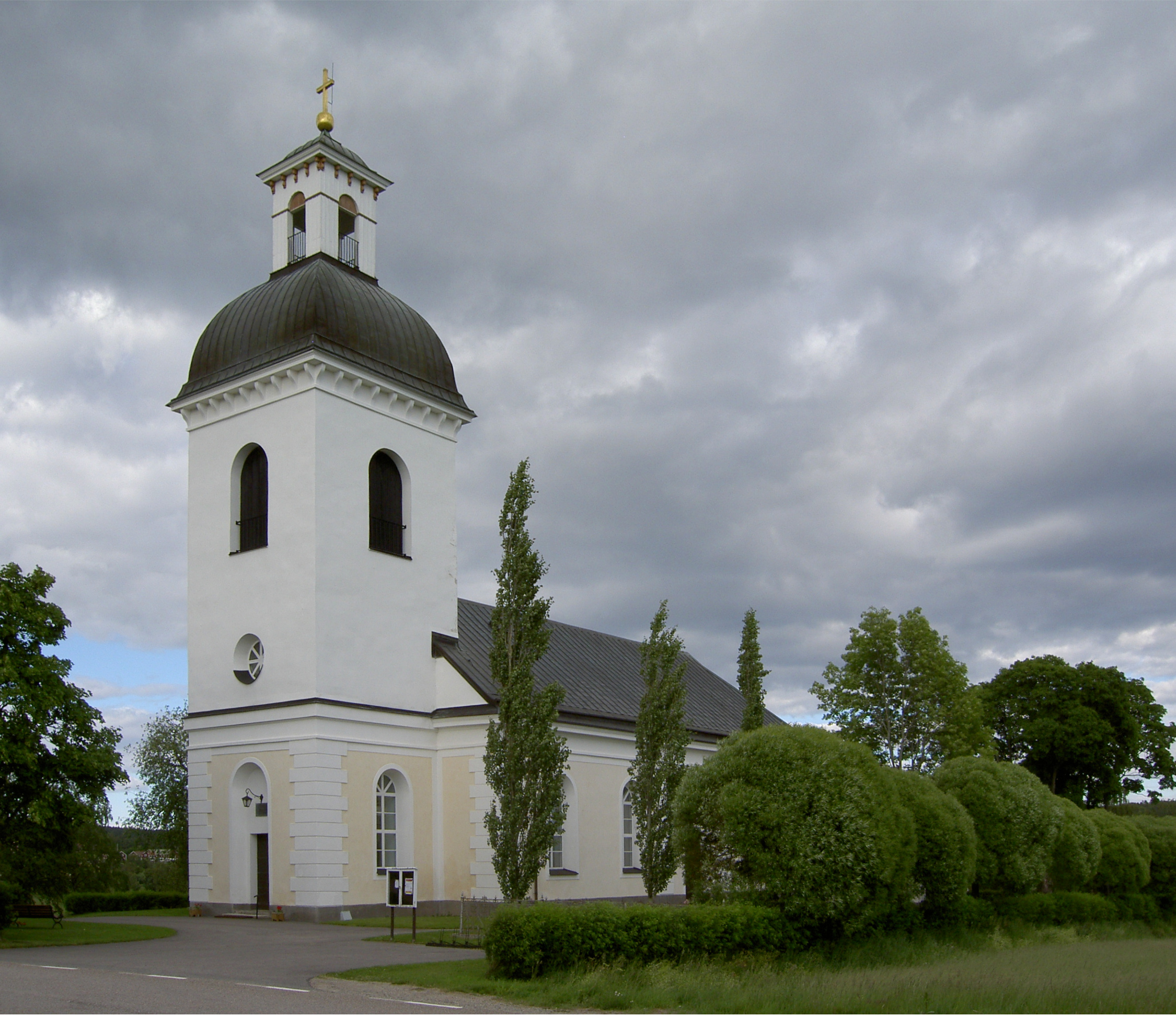 Jättendal Church from South West